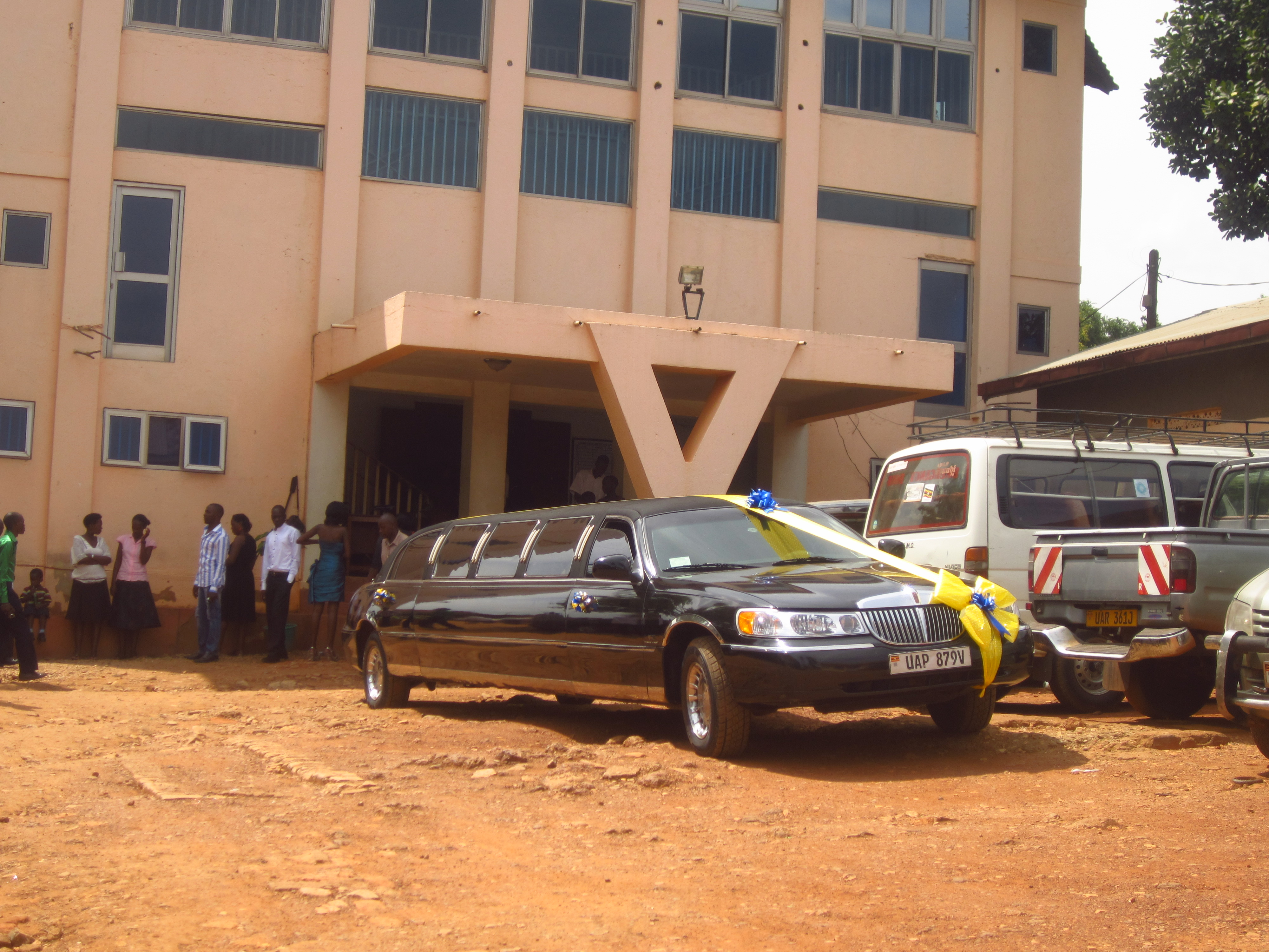 This is an image with the theme "Africa on the Move or Transport" from: Uganda